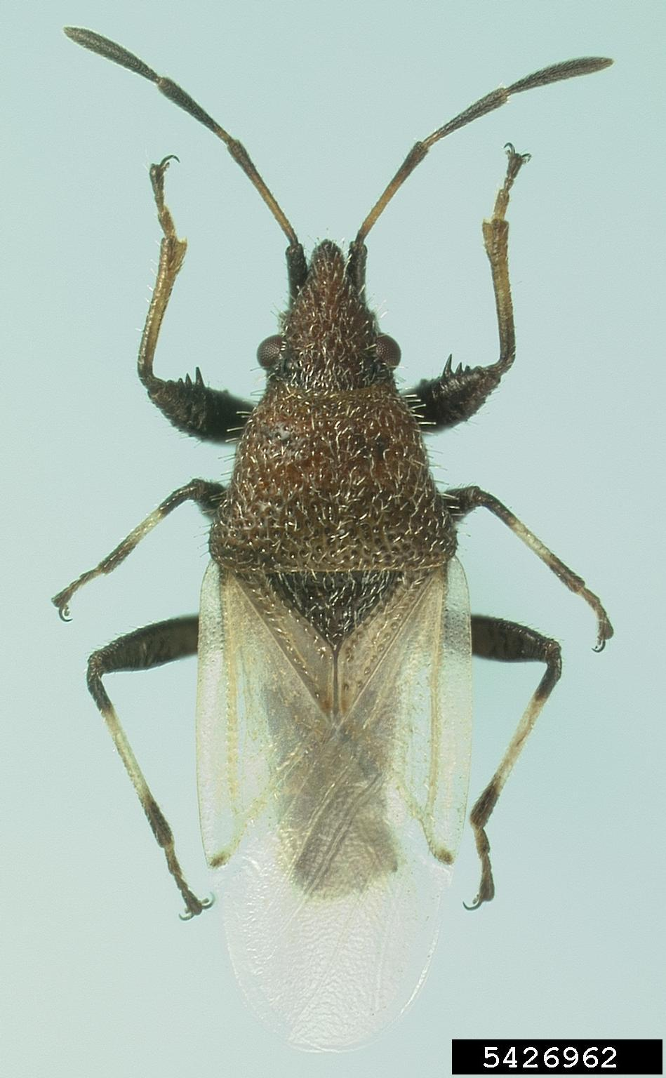 Dorsal view of Oxycarenus hyalinipennis taken by Julieta Brambila (USDA-APHIS) in 2010.